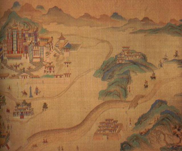 Painting of "pacify the distant general" in the western expedition in 1720.